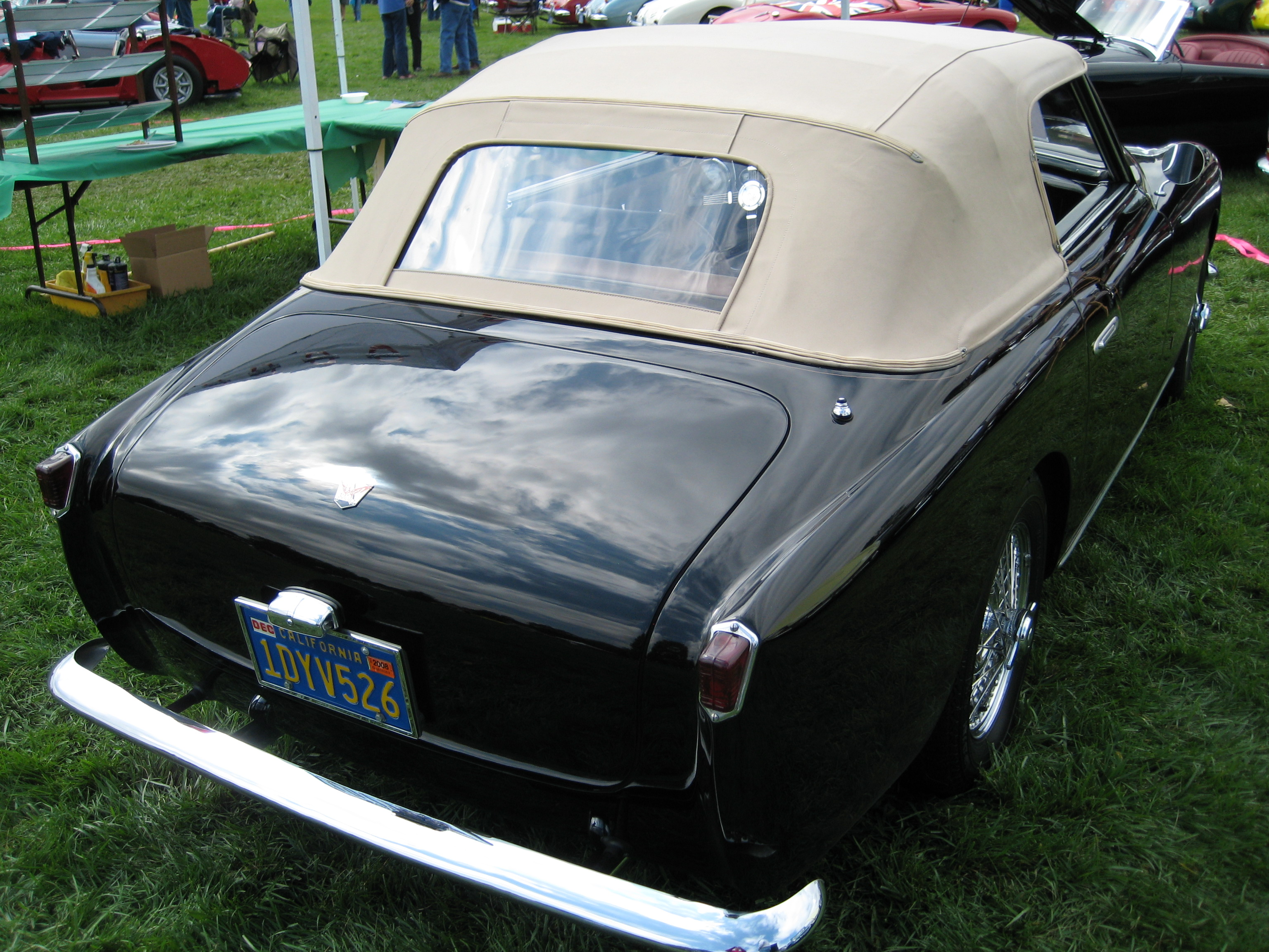 Arnolt MGBritish car meet Colorado 2008 at the Colorado Conclave, Arvada, Sept 14, 2008